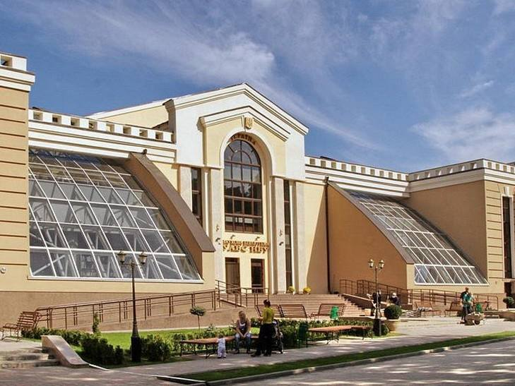 Конгрес-центр Сумського державного університету